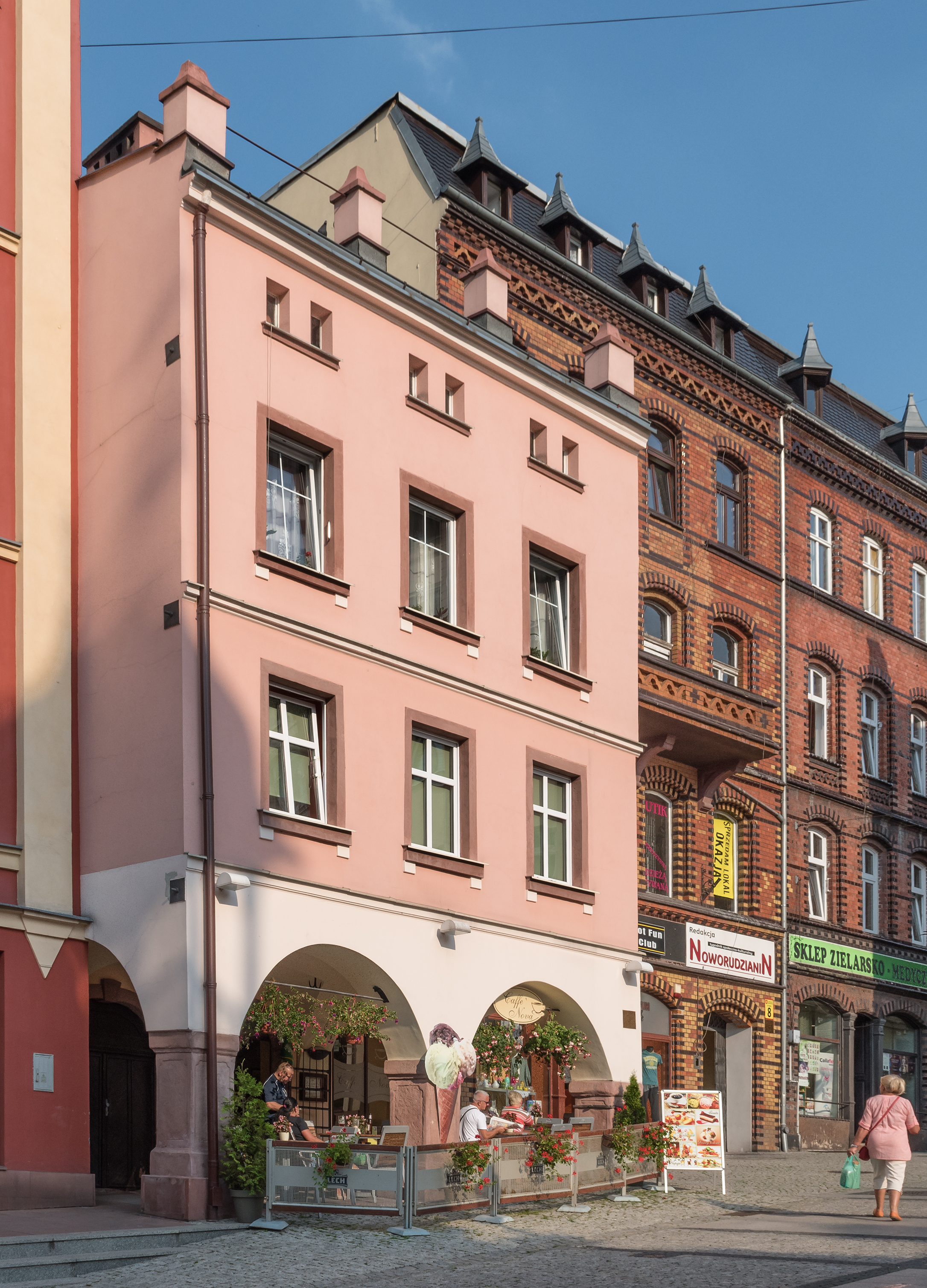 7 Market Square in Nowa Ruda